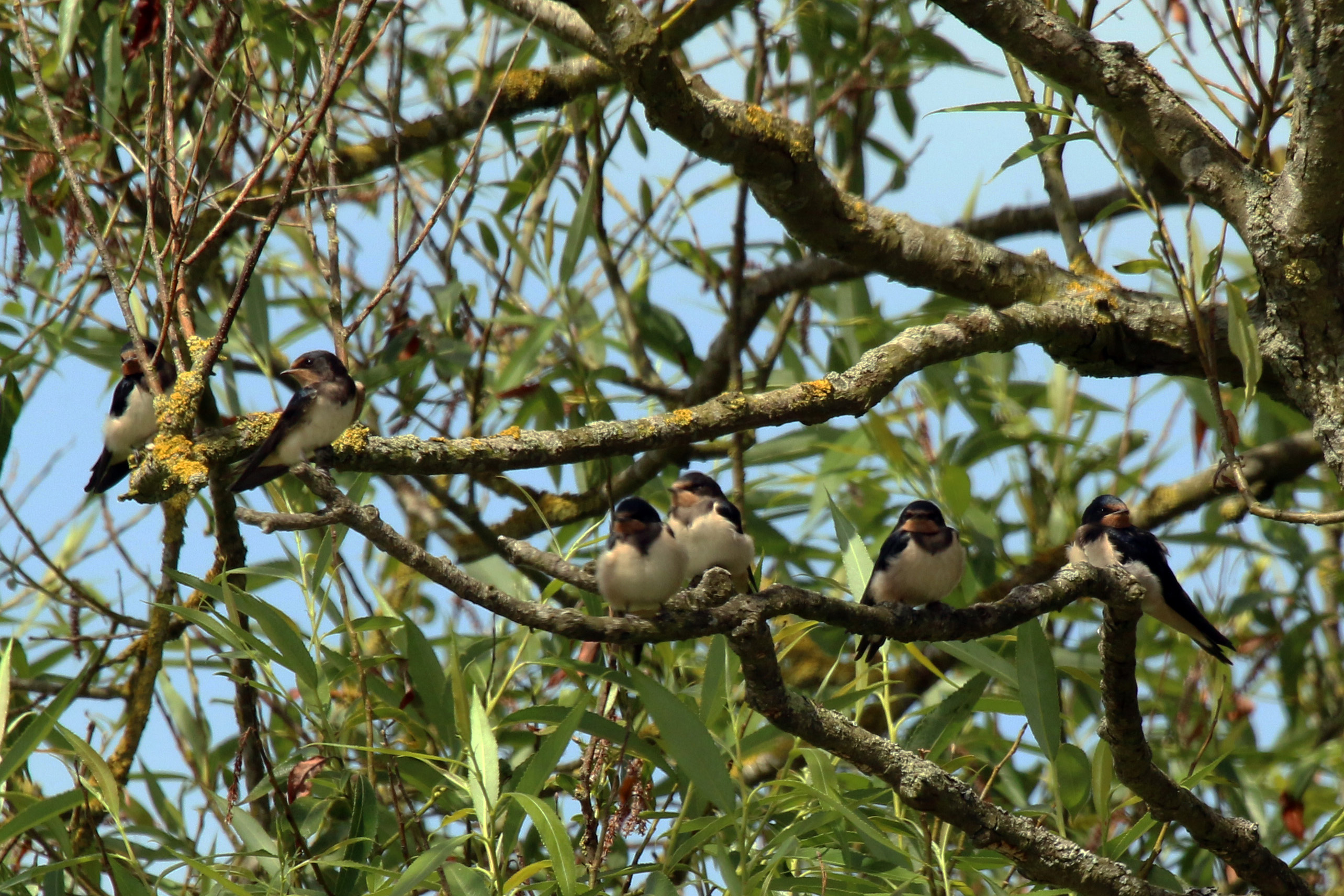 Barn swallow (Hirundo rustica rustica) juveniles